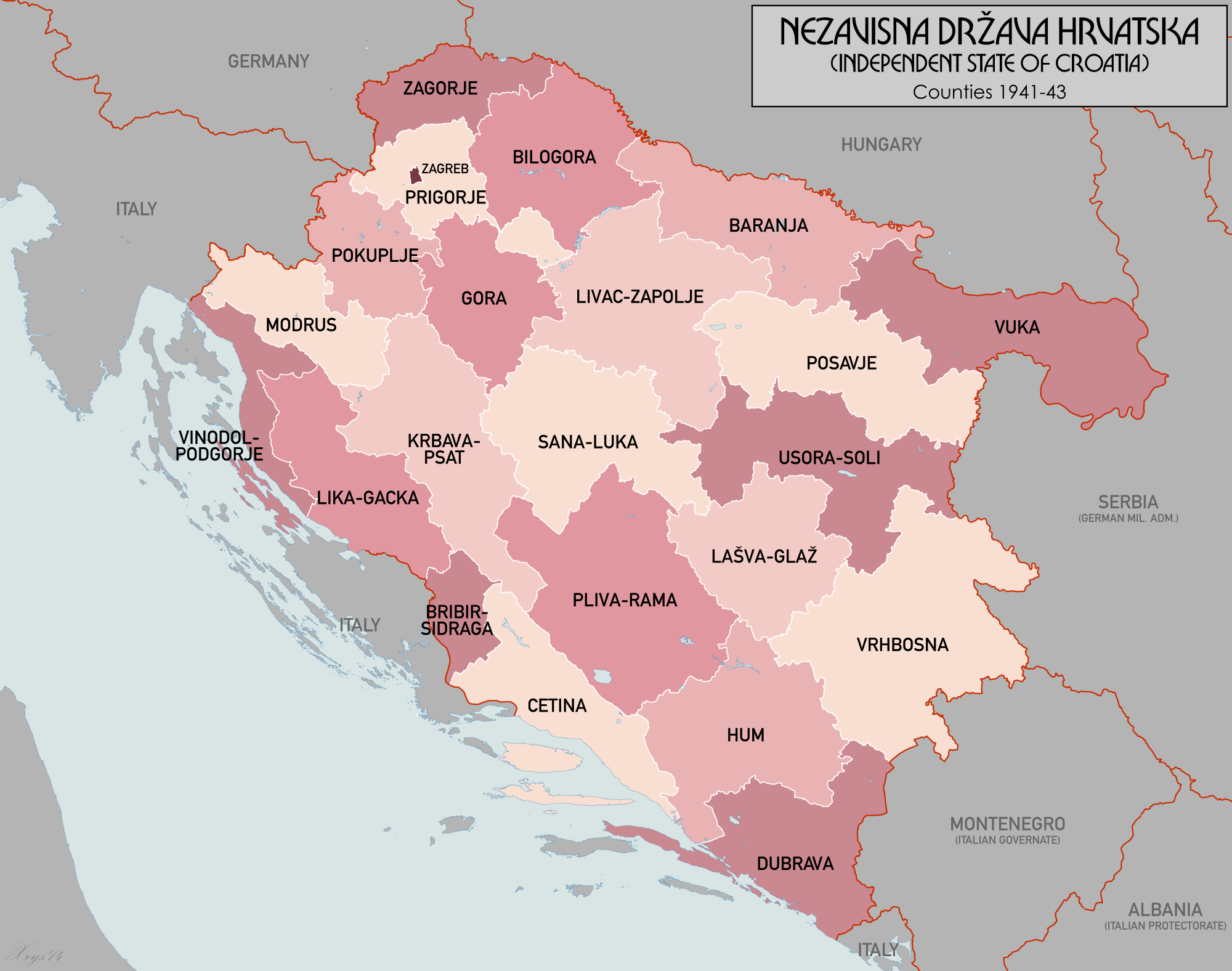 Administrative Map of the Independent State of Croatia (Nezavisna Drzava Hrvatska)